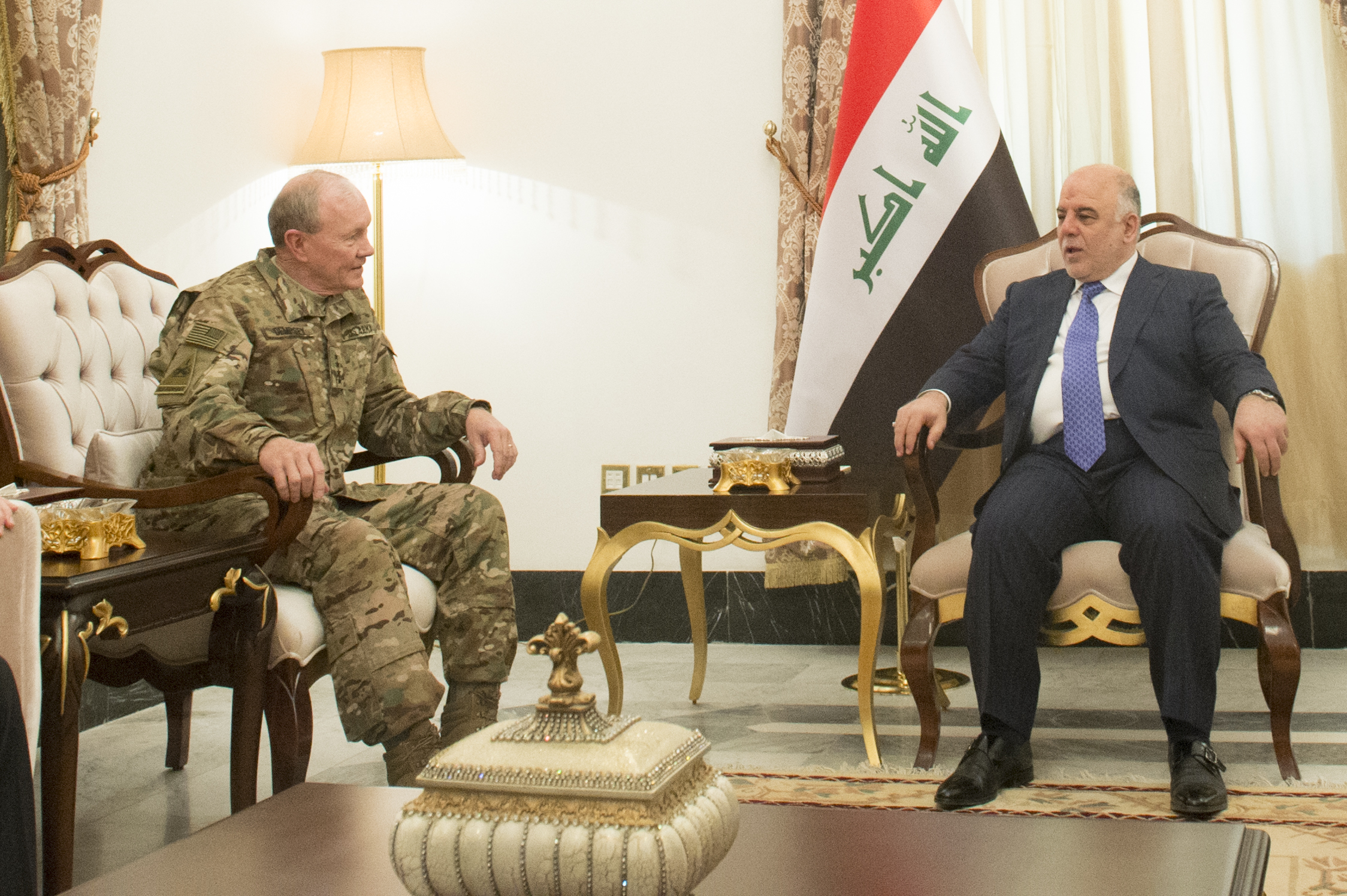 Prime Minister of Iraq Haider al-Abadi and Chairman of the Joint Chiefs of Staff Gen. Martin E. Dempsey met in Baghdad, Iraq, March 9, 2015. (DOD photo by D. Myles Cullen/Released)